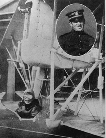 Lieutenant George H. Ludlow seated in an Italian-built Macchi M.5 flying boat